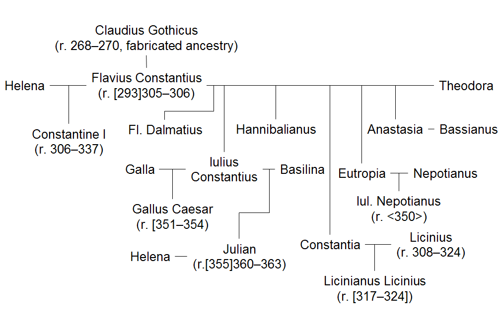 A tree displaying Constantius' purported ancestry, wives, sons, daughters, and selected grandchildren.